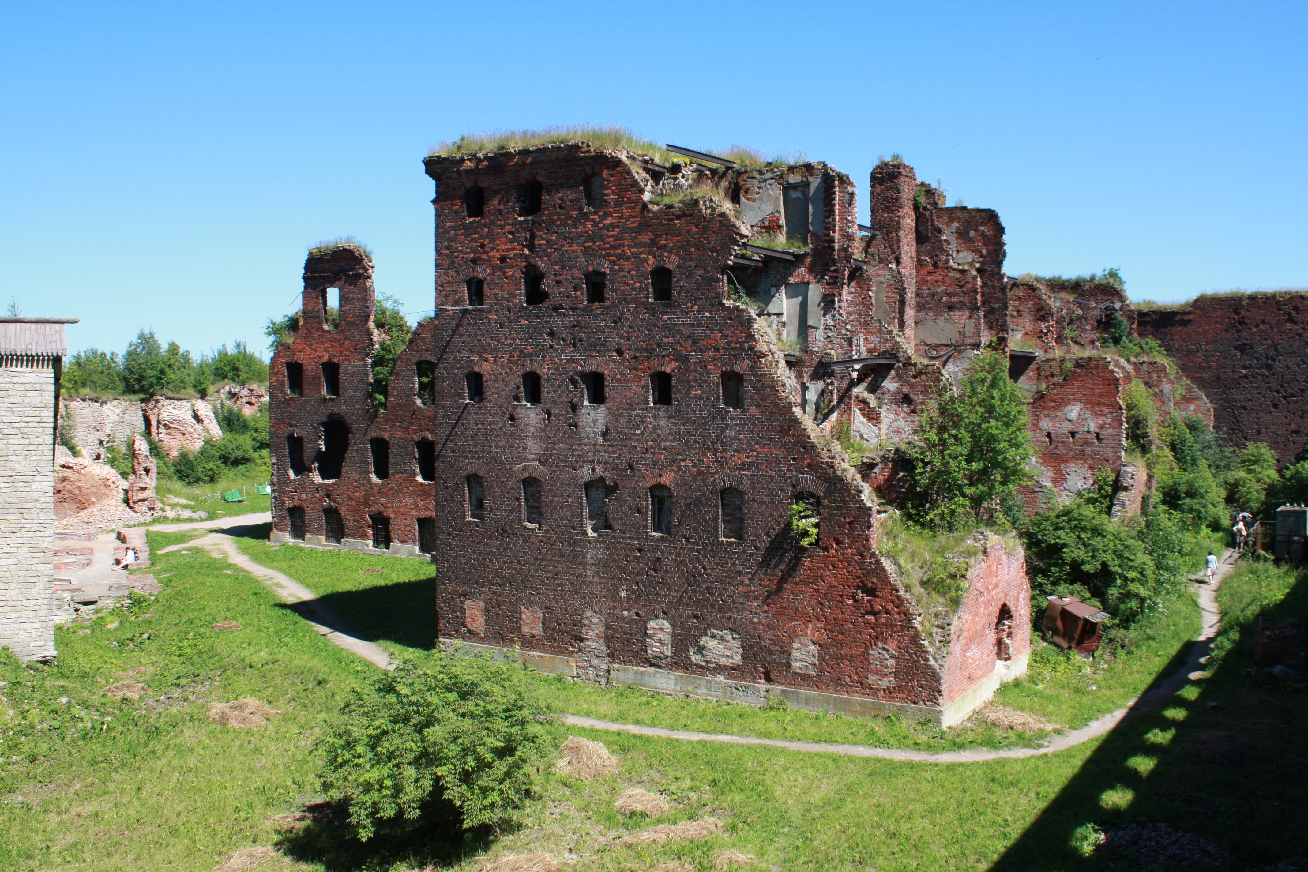 Side view of the fortress Nut inside.